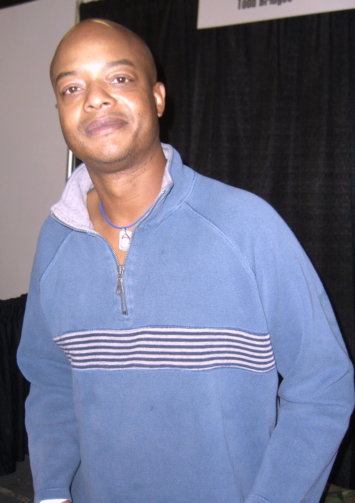 VERY COOL